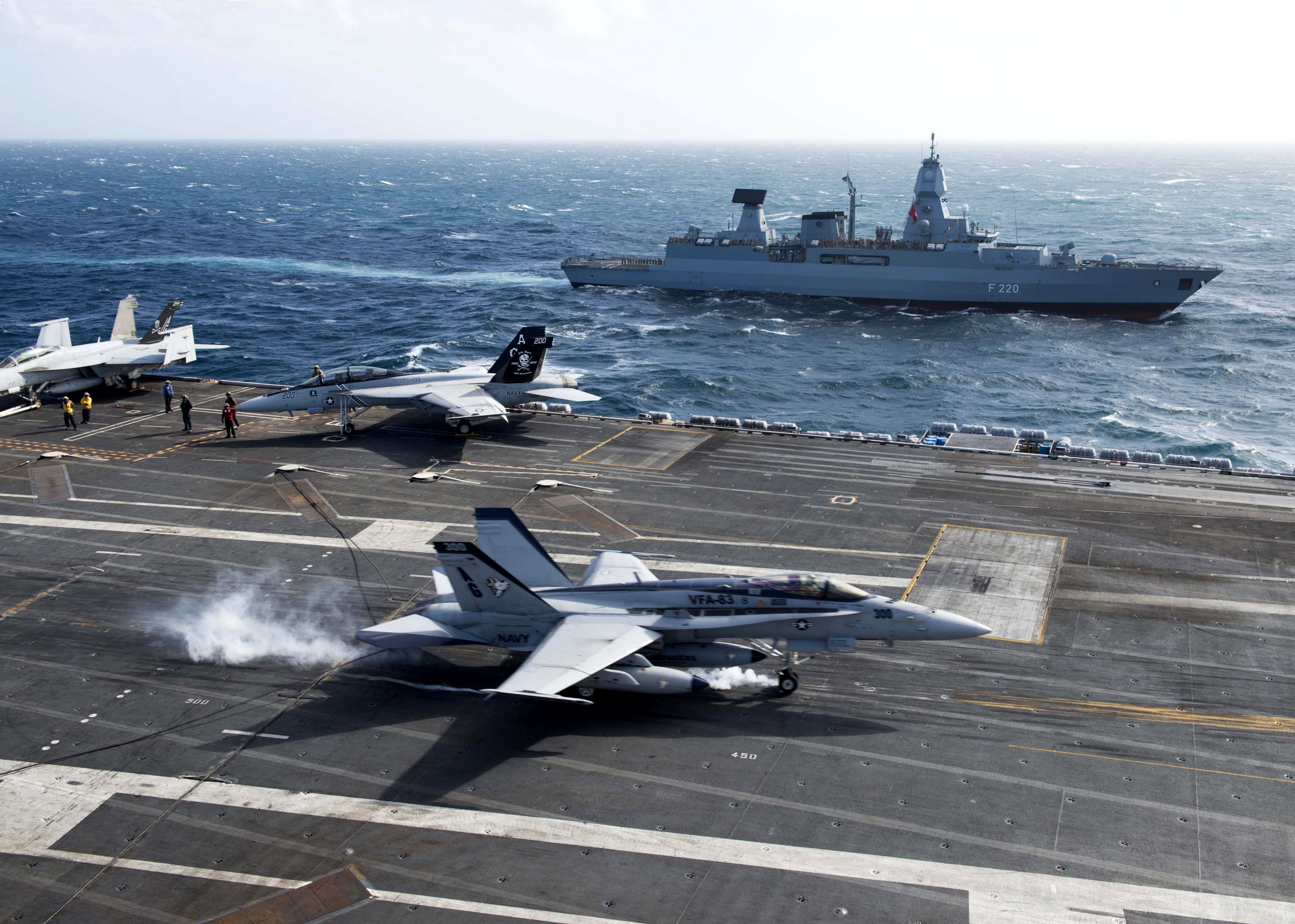 A U.S. Navy McDonnell Douglas F/A-18C Hornet assigned to the Rampagers of Strike Fighter Squadron VFA-83 lands on the flight deck of the aircraft carrier USS Dwight D. Eisenhower (CVN-69) as the German Navy frigate Hamburg (F220) transits alongside. The German frigate was the first German ship to fully integrate and deploy with a U.S. Navy carrier strike group. The Hamburg was to stay a part of the strike group until the group's completion of operations in the U.S. 5th Fleet Area of Responsibility (Arabian Sea).